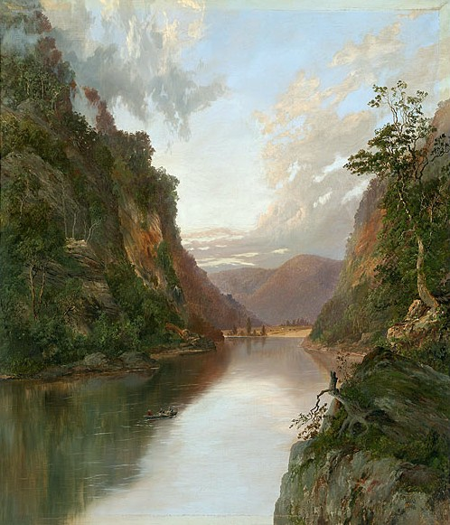 "Hawkesbury River with Figures in Boat : On the Nepean", oil on canvas, 106.5 cm x 92.0 cm